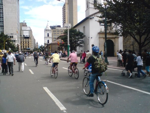 People riding bikes on the streets of Bogota